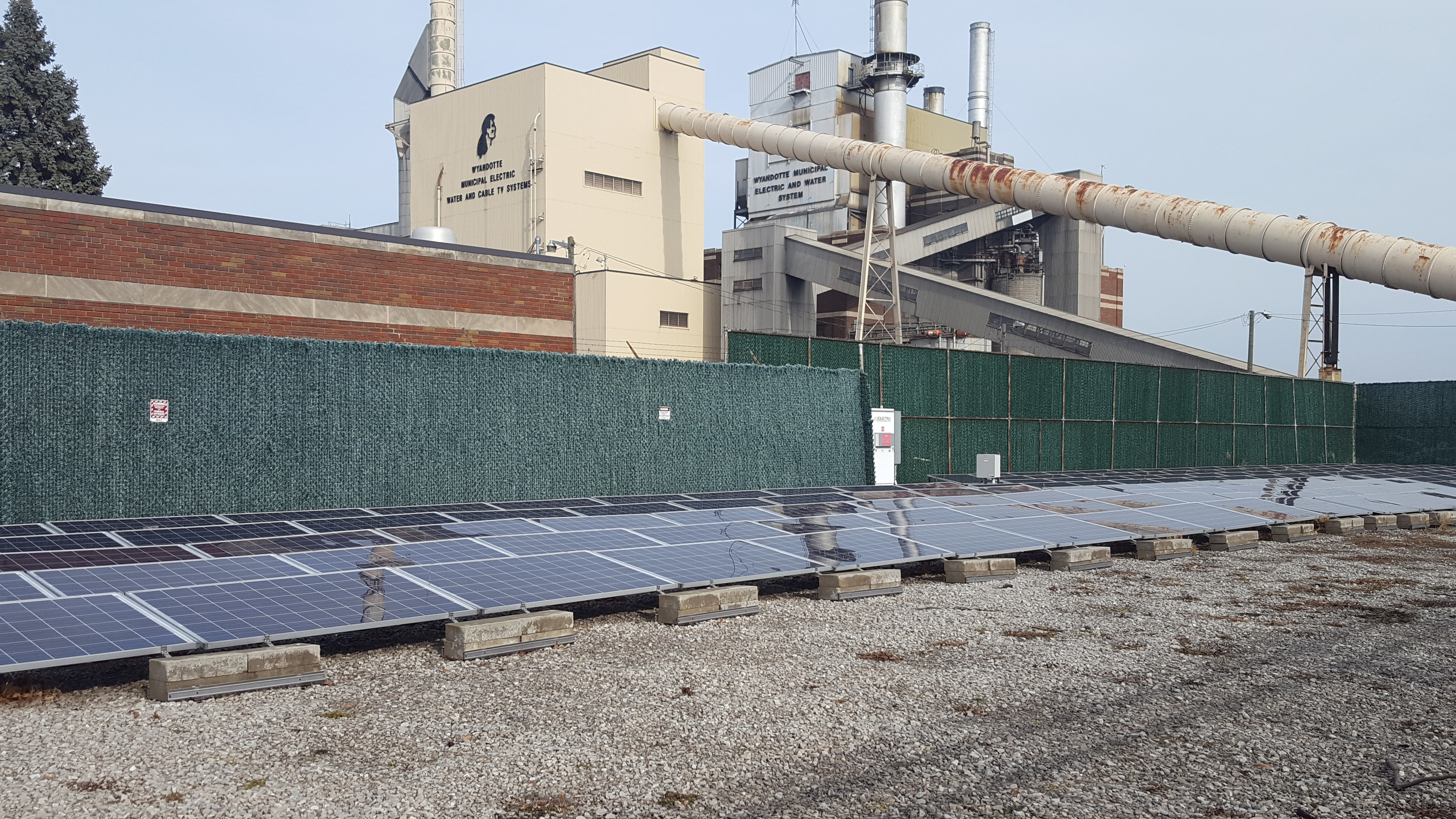 Solar panels at Wyandotte Power Plant, Wyandotte, Michigan